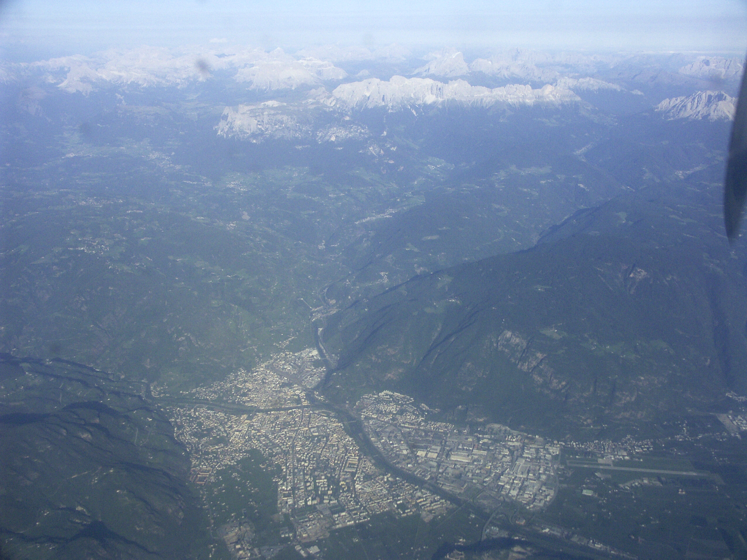 Aereal View of Bolzano Bozen (Italy)